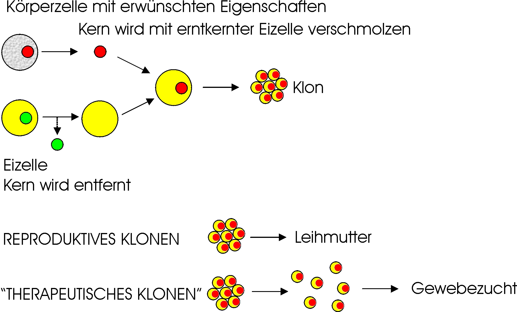 Reproductive and therapeutic cloning german diagram